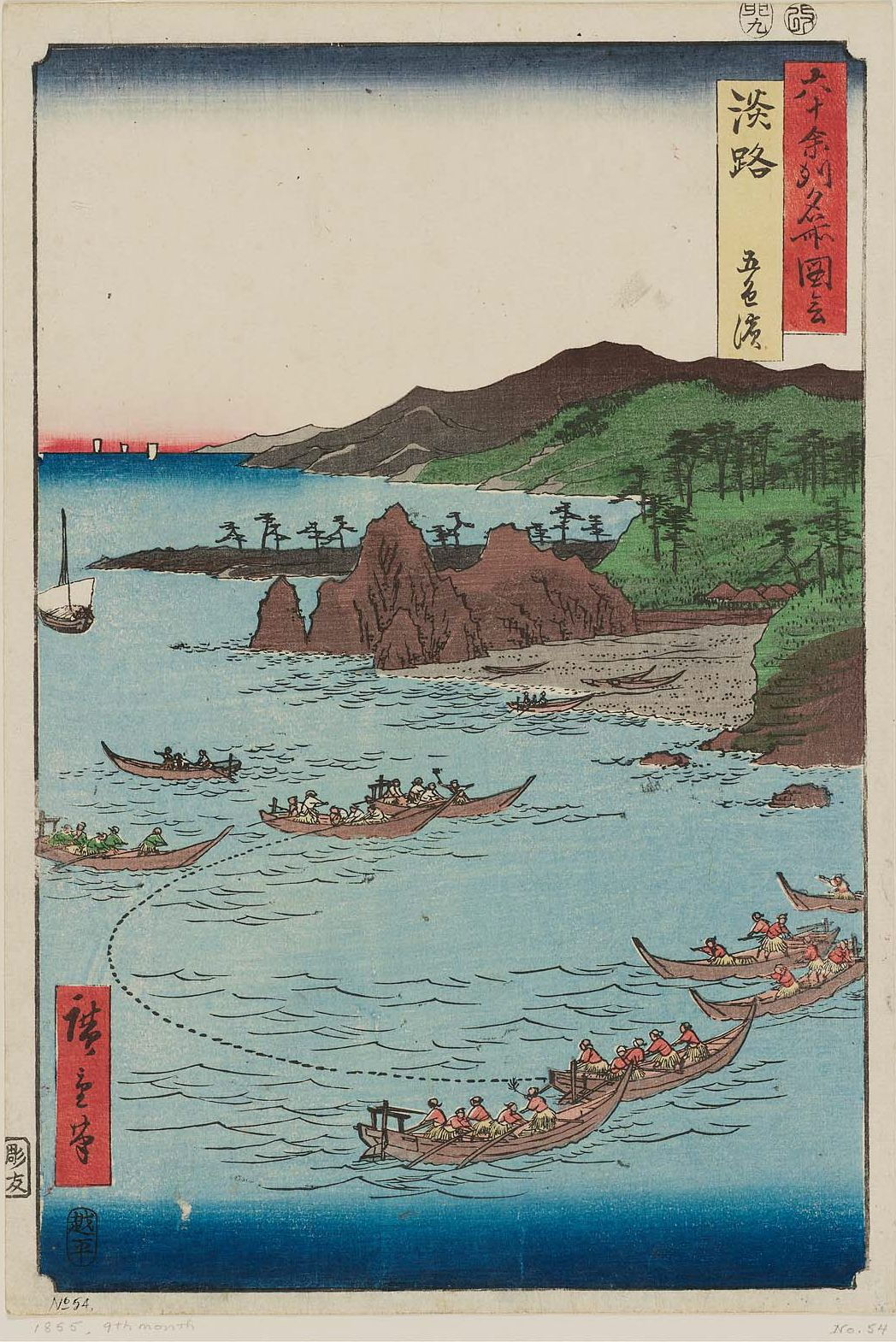 Part of the series Famous Places in the Sixty-odd Provinces, No. 54 (Nankaidō group)